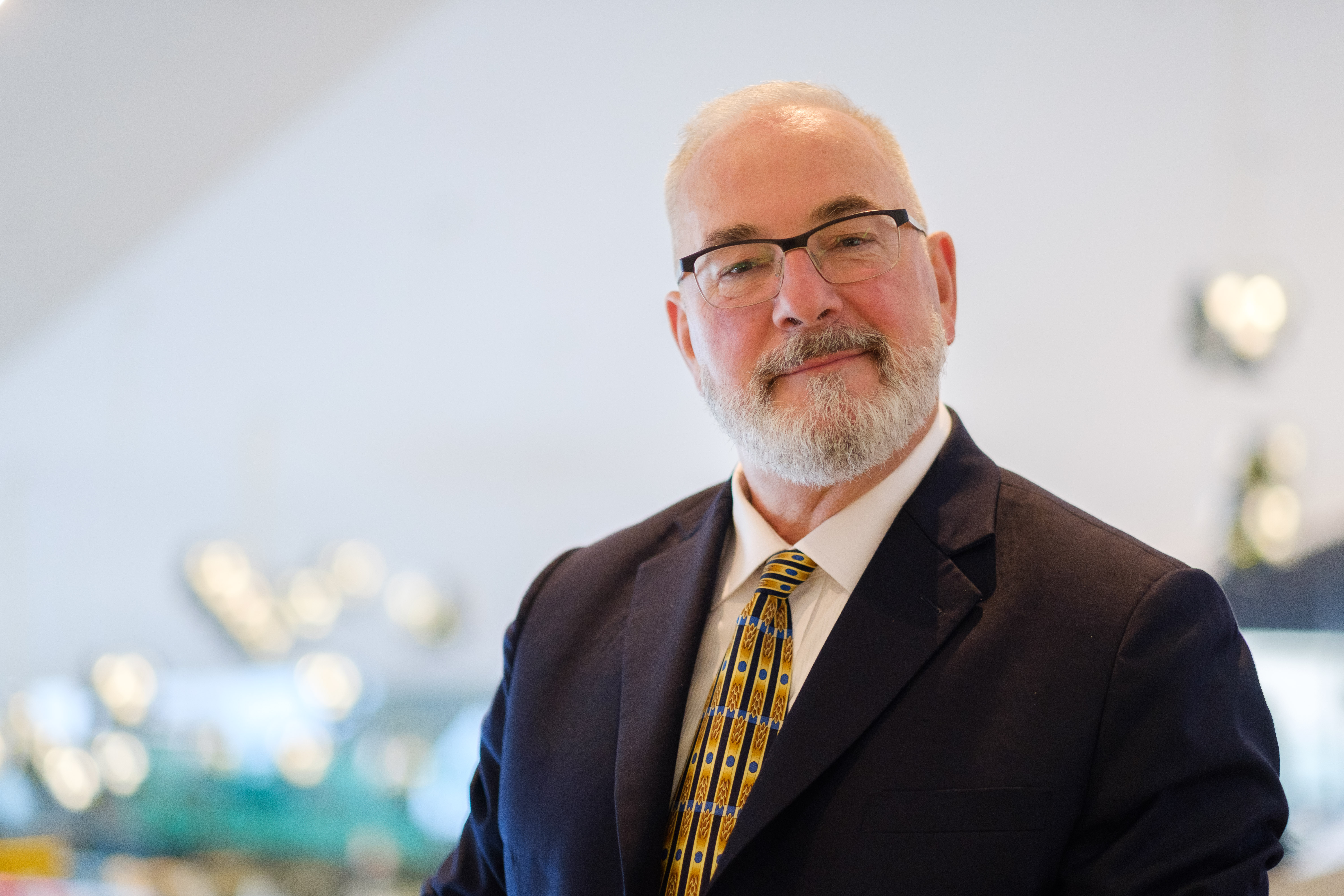 The European Data of Tomorrow Conference was both an educating and inspiring event about information, data and all its relevant, innovative and value-adding aspects. Data of Tomorrow gave attendees a glimpse of the future of Master Data Management (MDM), technology and industry trends – and the tools to shape it. The conference took place on September 20 and 21 in the EYE filmmuseum in Amsterdam, The Netherlands.